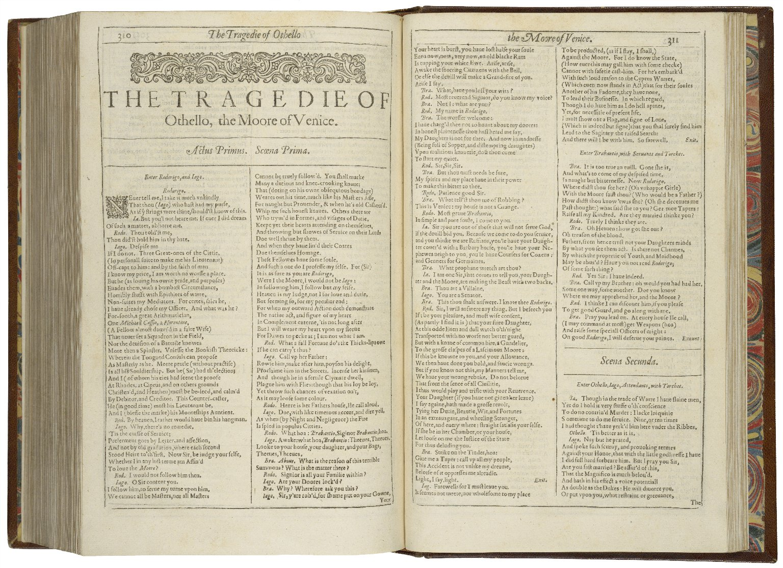 The title page of Shakespeare's Othello from the First Folio, printed in 1623